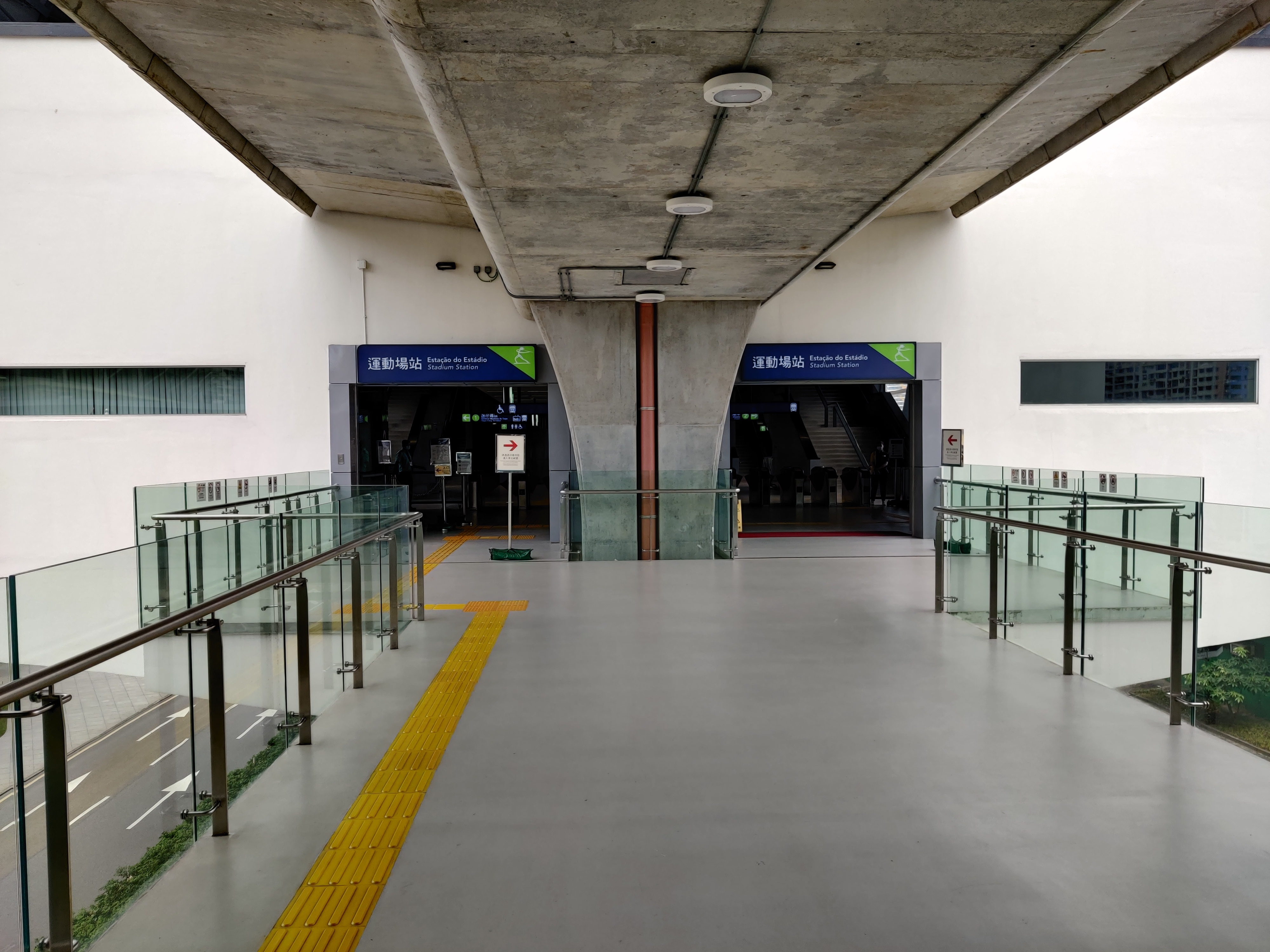 Entrance of Stadium Station, Macau LRT 中文（香港）: 澳門輕軌氹仔線運動場站入口